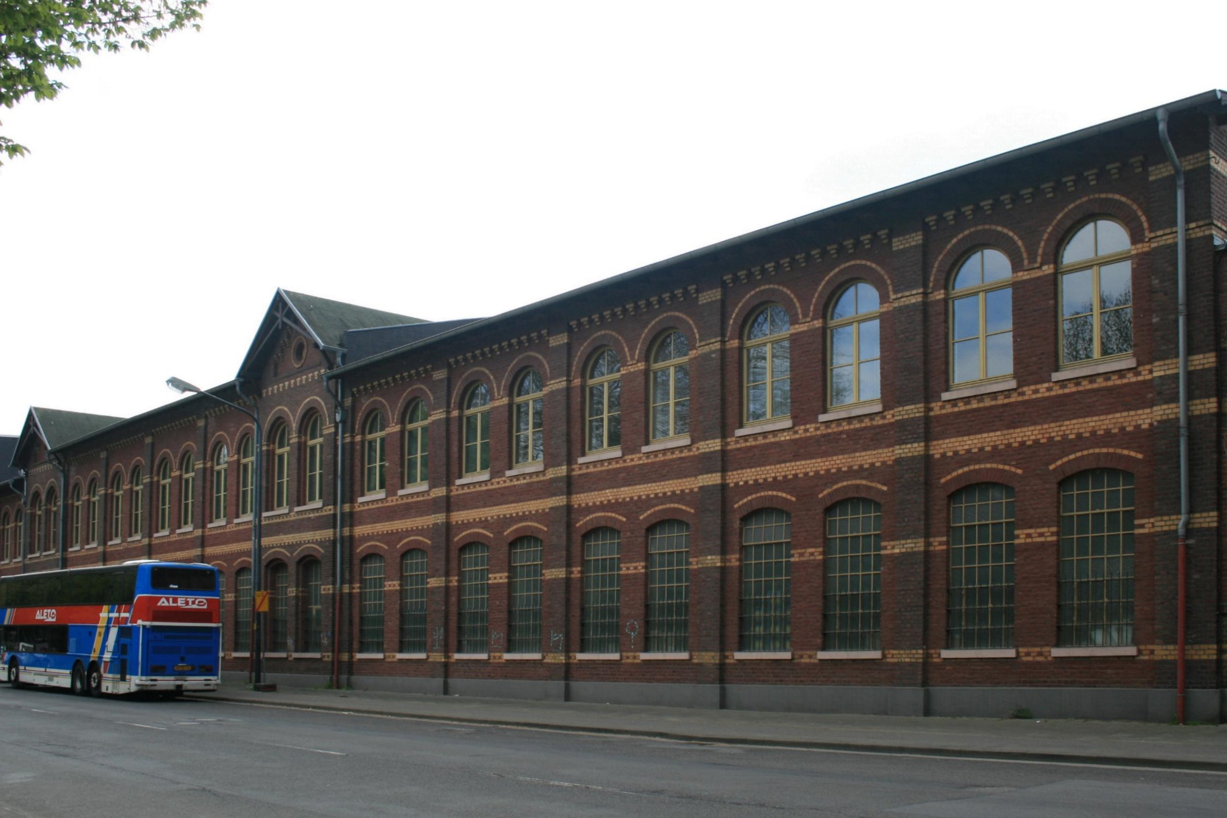 Cultural heritage monument No. 1/066c in Düren